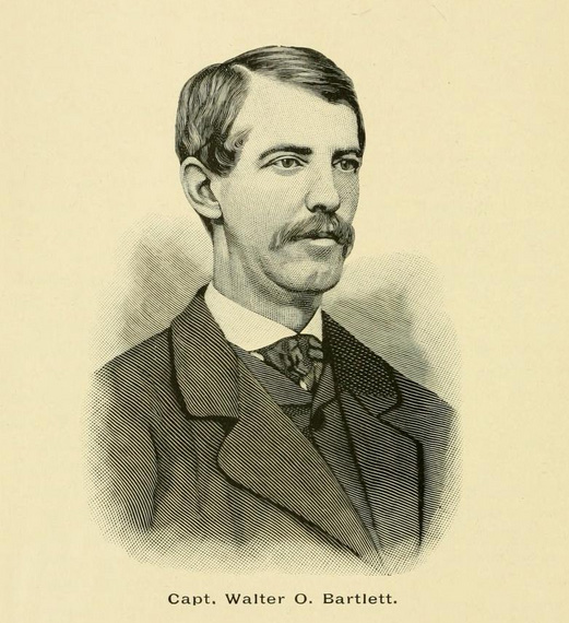 Captain Walter Bartlett (Battery B, 1st Rhode Island Light Artillery)